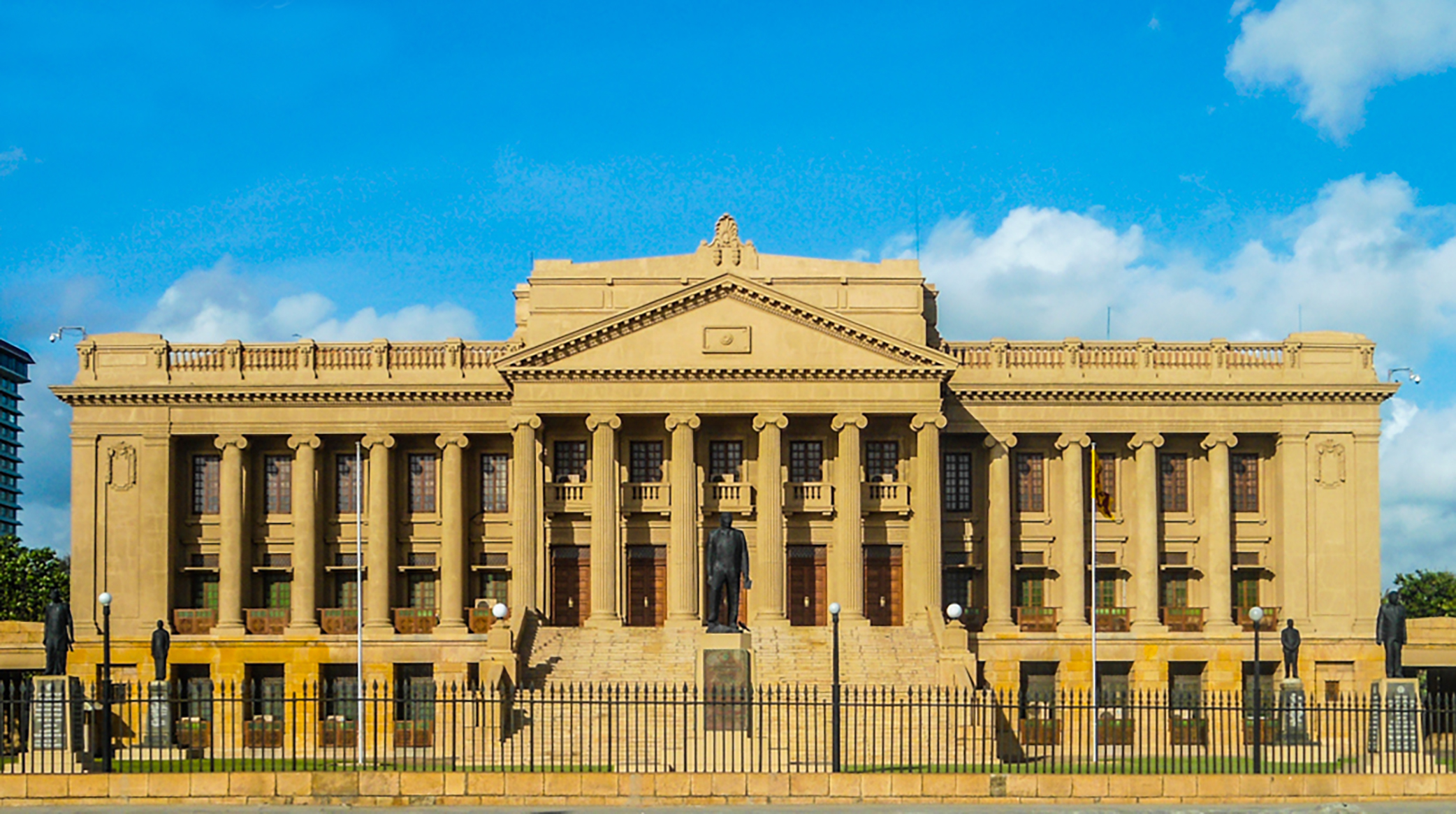 Image of the Old Parliament Building, Colombo, Sri Lanka. July 2014